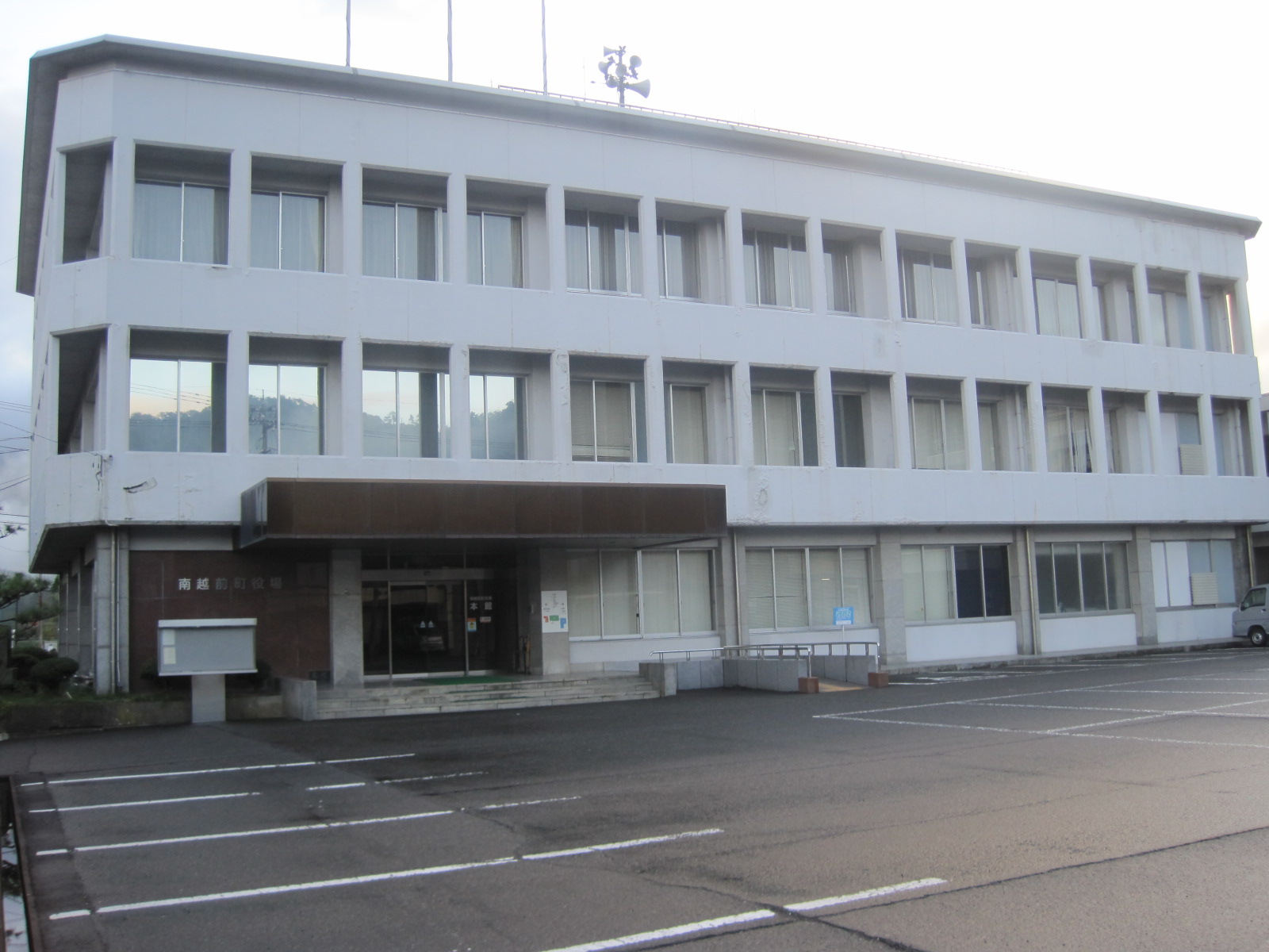 Minami-Echizen Town Hall(Fukui prefecture, Japan)